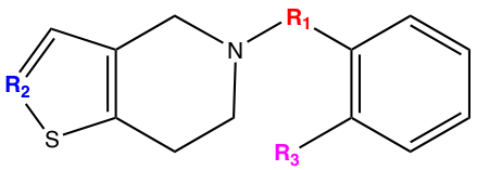 Picture 35